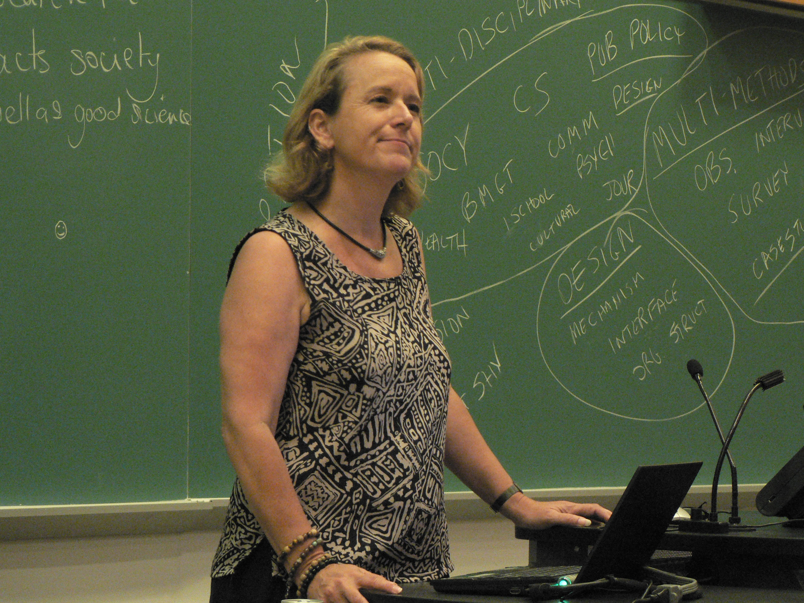 Lise Getoor at Webshop 2011 at University of Maryland on August 23-26, 2011. Webshop gathered 45 students and 20 speakers for a four day program of lectures and workshops related to applying social media to improving collective action and realizing national goals related to health, disaster recovery, competitiveness, education, and security.